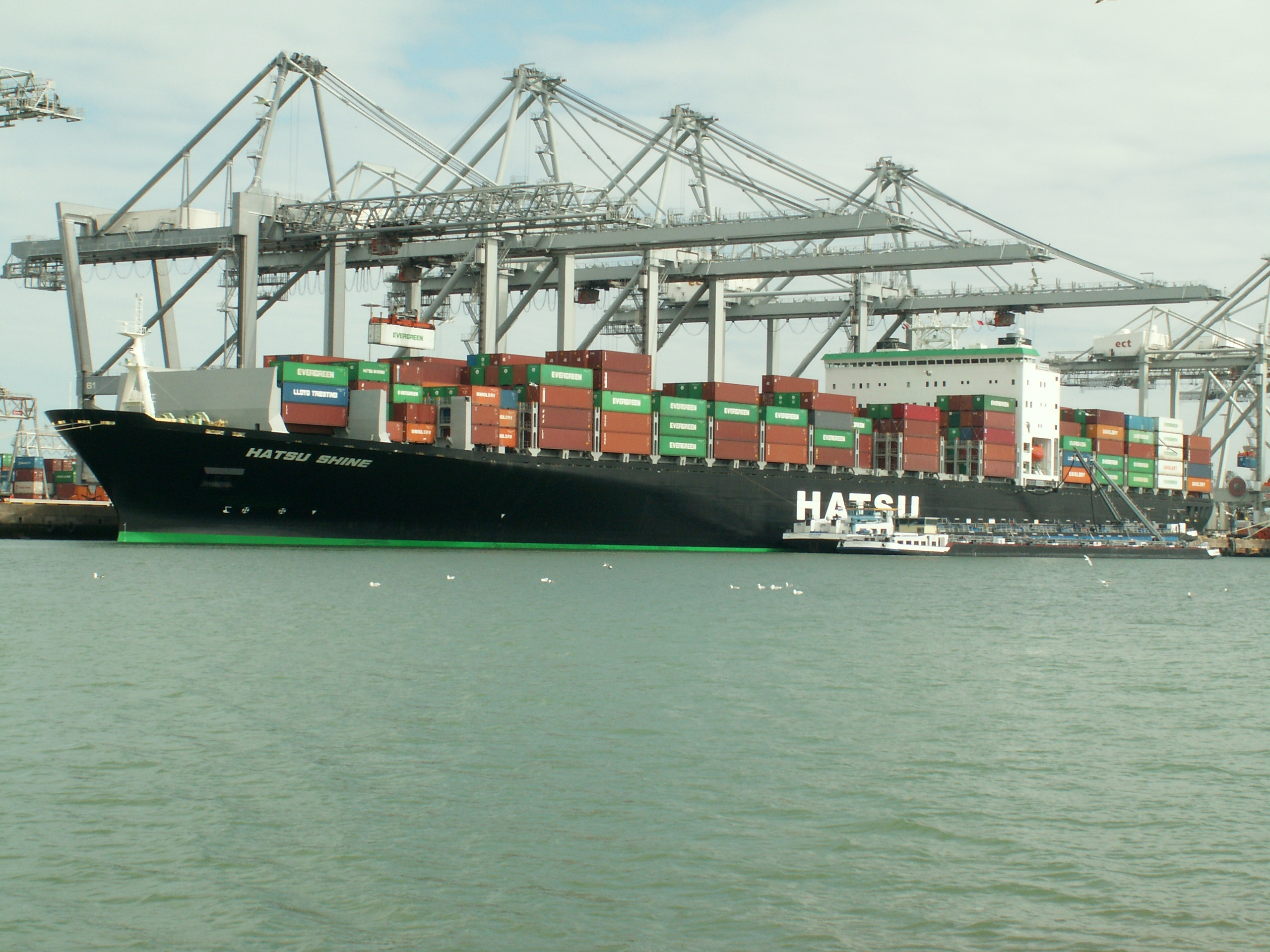 Hatsu Shine, at the Amazone harbour, Port of Rotterdam, Holland 17-Apr-2006.